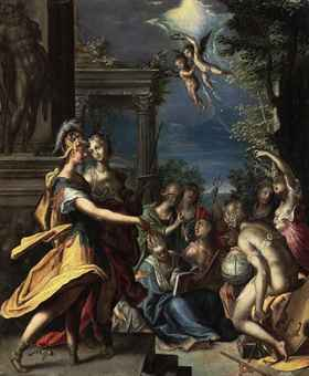 Minerva introducing Painting to the Liberal Arts, oil on copper 8 3/8 x 6 7/8 in. (21.1 x 17.6 cm.)